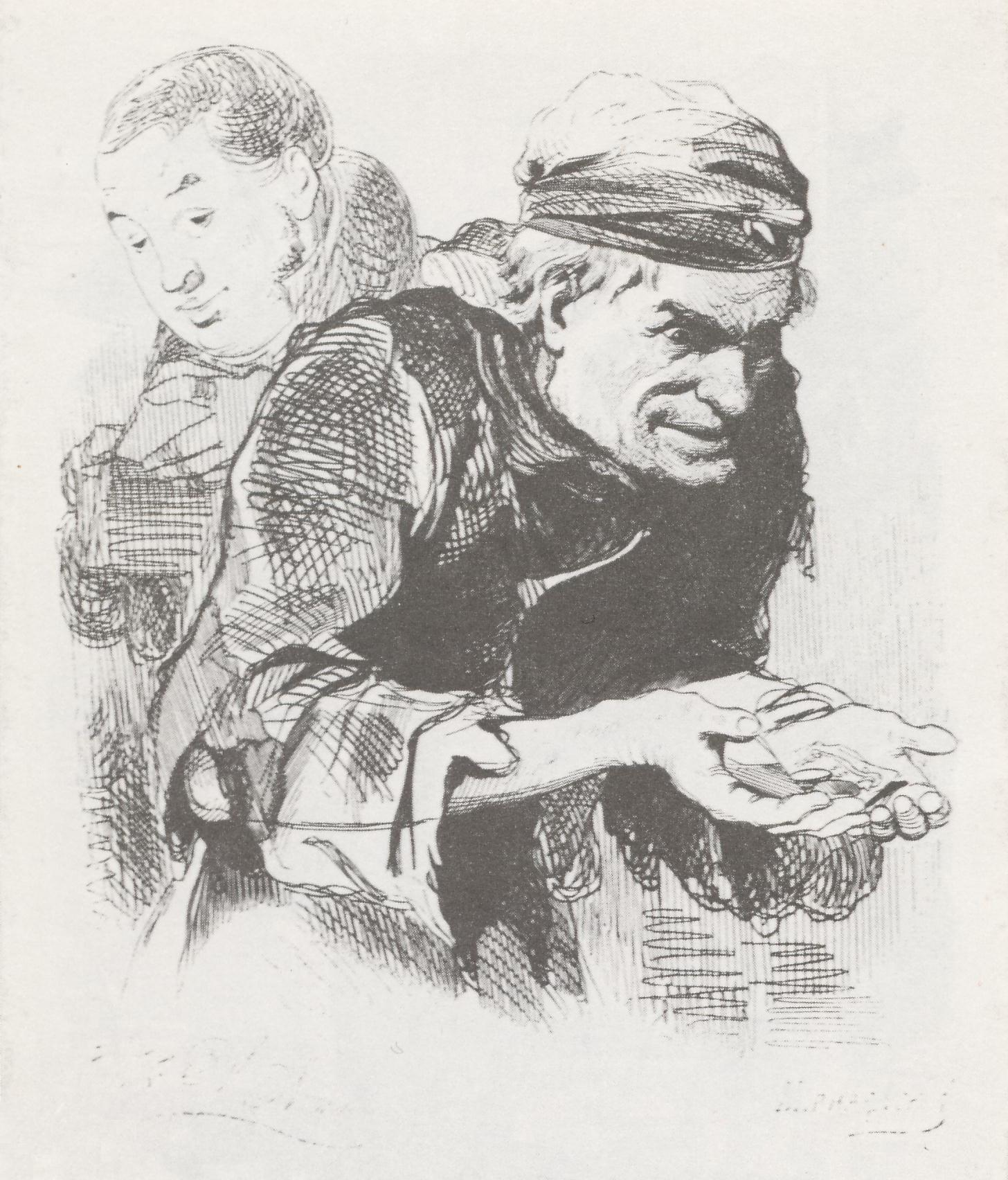 Plyushkin. Illustration for Nikolai Gogol's Dead Souls